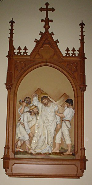 This is the fifth station of the cross in which Simon of Cyrene is made to help Christ carry his cross. I took this in February of 2006. Jesster79 01:51, 6 March 2006 (UTC)